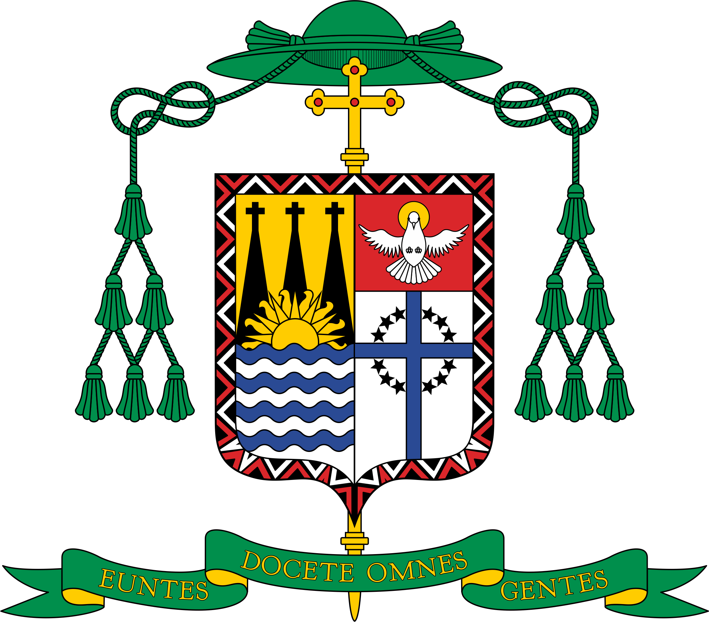 Bishop Cesare Bonivento, P.I.M.E., Bishop Emeritus of Vanimo, Papua New Guinea